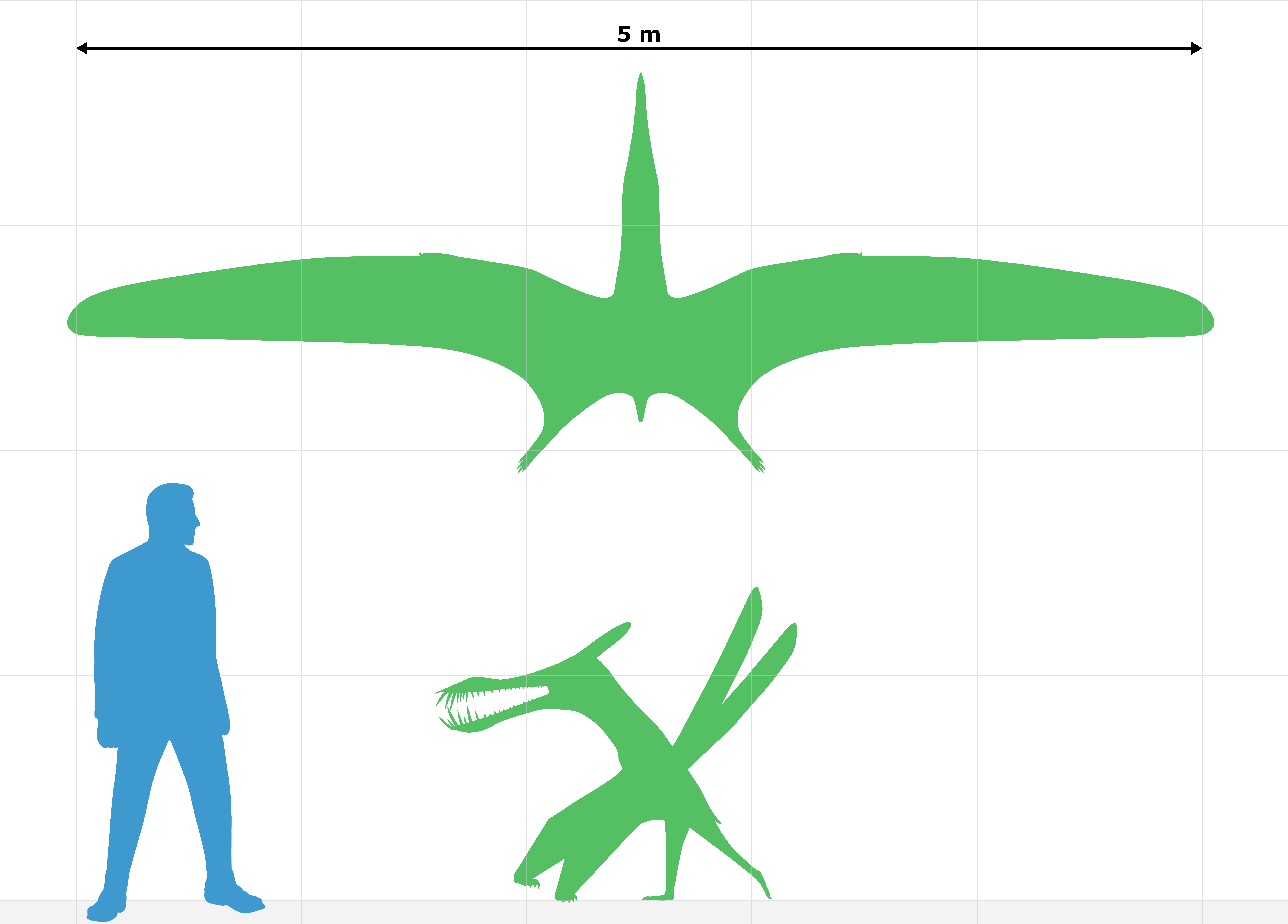 Caulkicephalus scale based on the holotypic specimen. Silhouette based on human from (CC-0 [